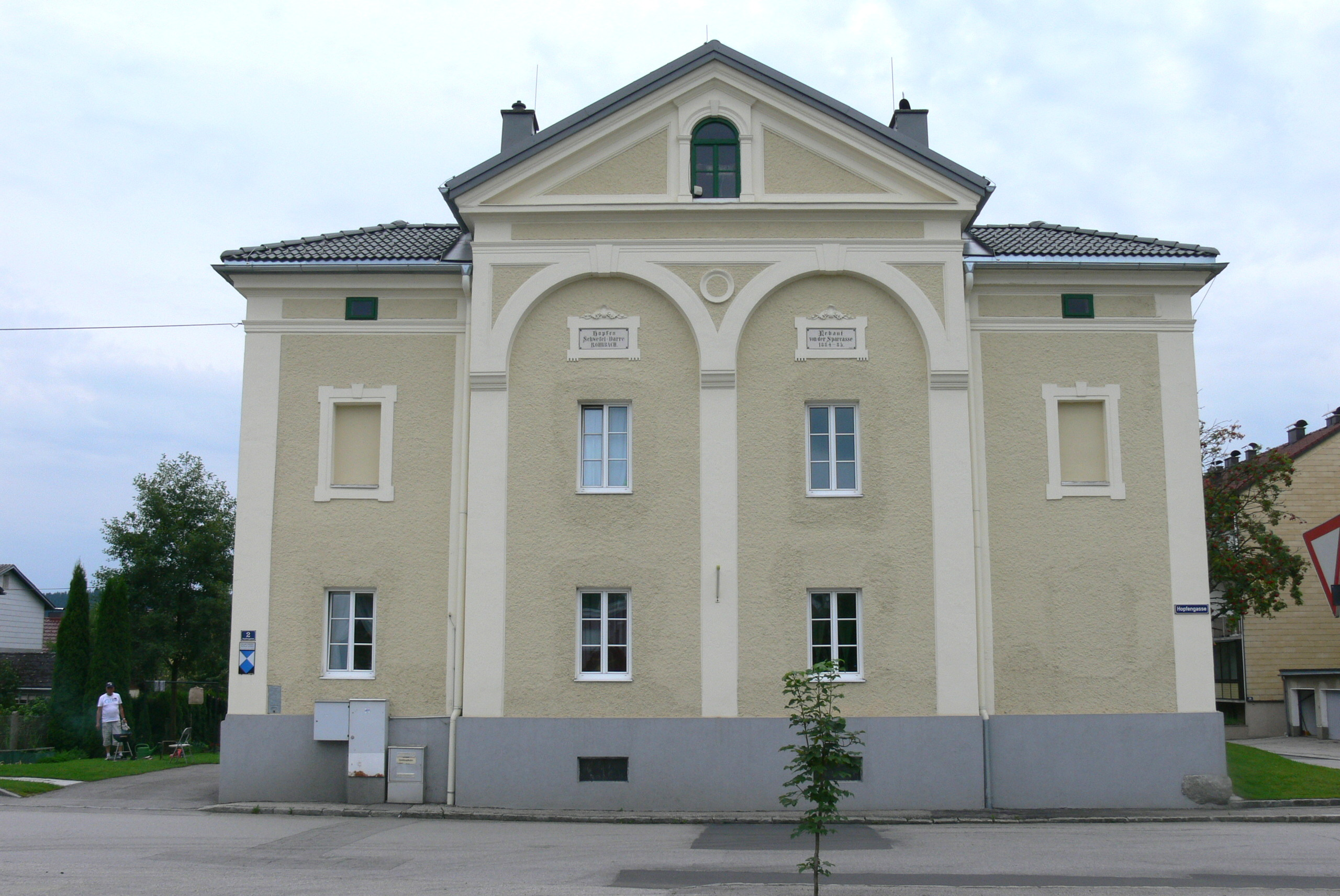 Rohrbach ( Upper Austria ). Hops drying house ( 1885 )